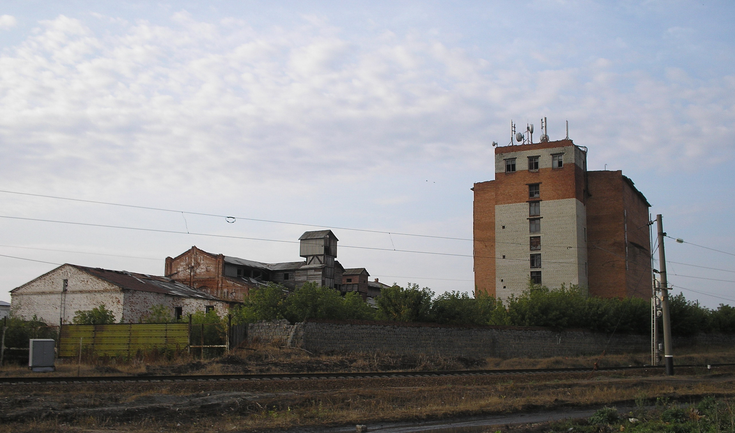 Rtishchevsky meat-packing plant